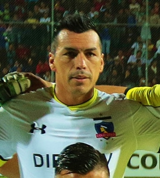 Esteban Paredes